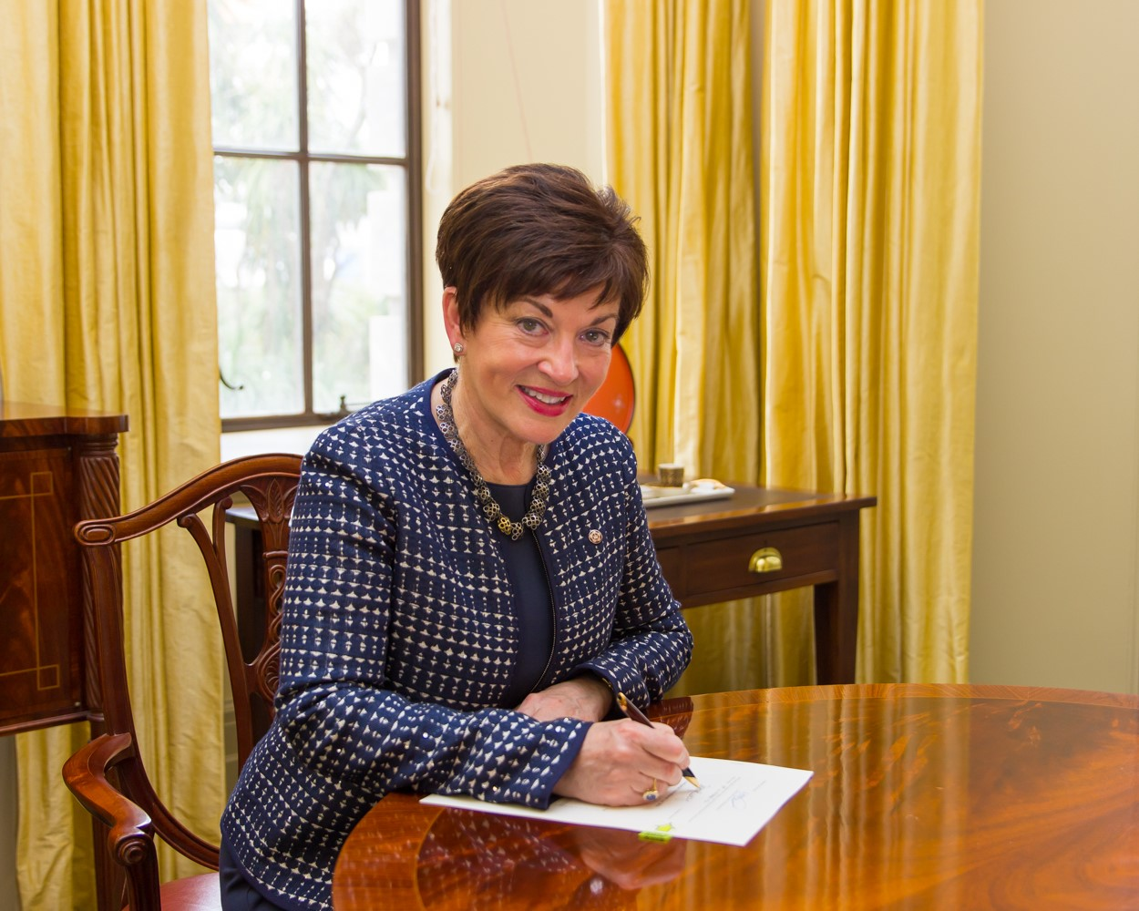 Dame Patsy Reddy gave her first Royal assent. This is the final step a bill needs to go through before it becomes law